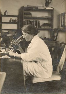 Lucy Wills, MA (Cantab), LRCP, MB BS (Lond) (10 May 1888 — 1964) was a leading English haematologist. She conducted seminal work in India in the late 1920s and early 1930s on macrocytic anaemia of pregnancy. Her observations led to her discovery of a nutritional factor in yeast which both prevents and cures this disorder. Macrocytic anaemia is characterised by enlarged red blood cells and is life threatening. Poor pregnant women in the tropics with inadequate diets are particularly susceptible. The nutritional factor identified by Lucy Wills (the ‘Wills Factor’) was subsequently shown to be folate, the naturally occurring form of folic acid. She is shown here at work in India (date and location unknown) The image is from family archives.